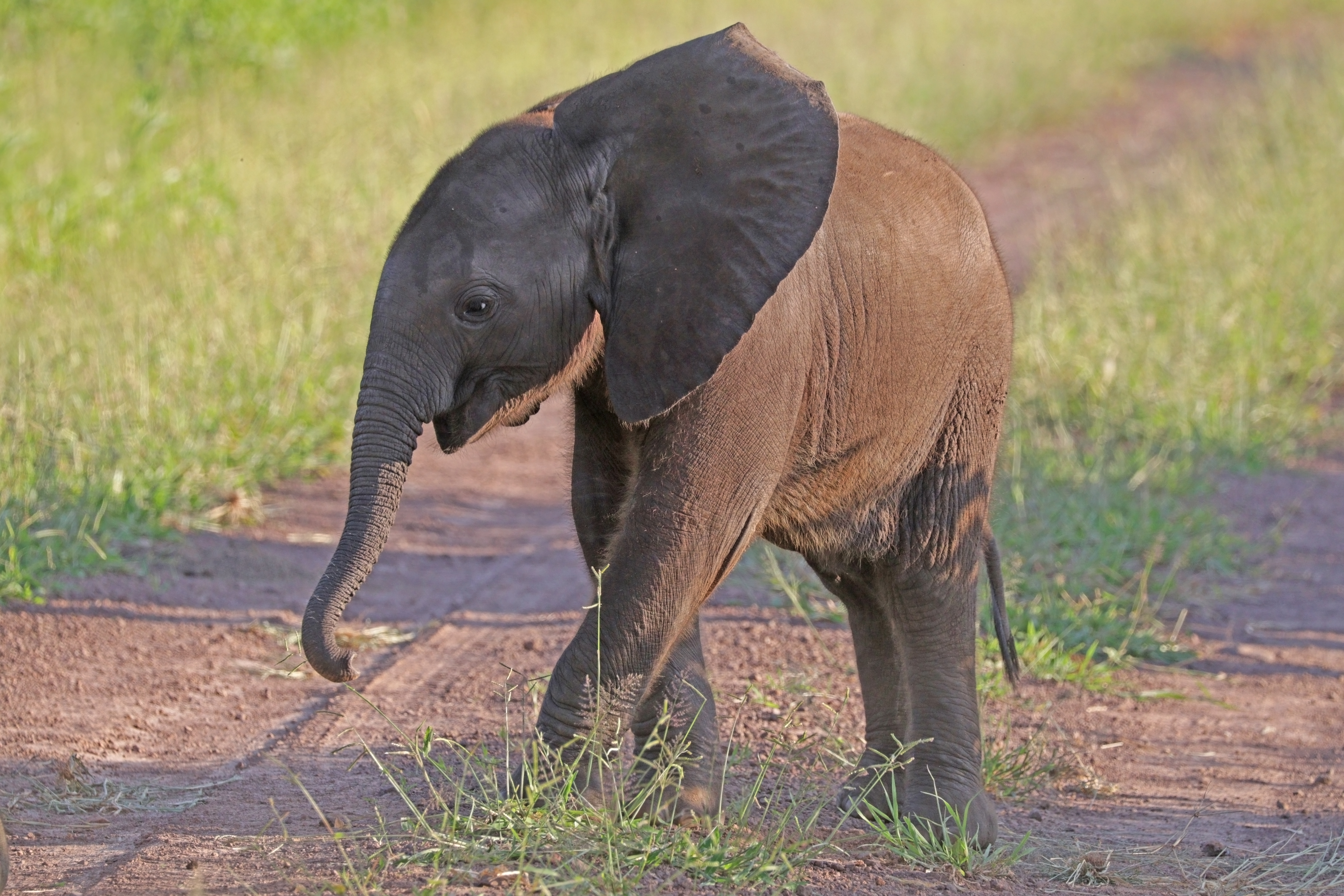 African bush elephant (Loxodonta africana) baby 6 weeks, Matetsi Safari Area, Zimbabwe